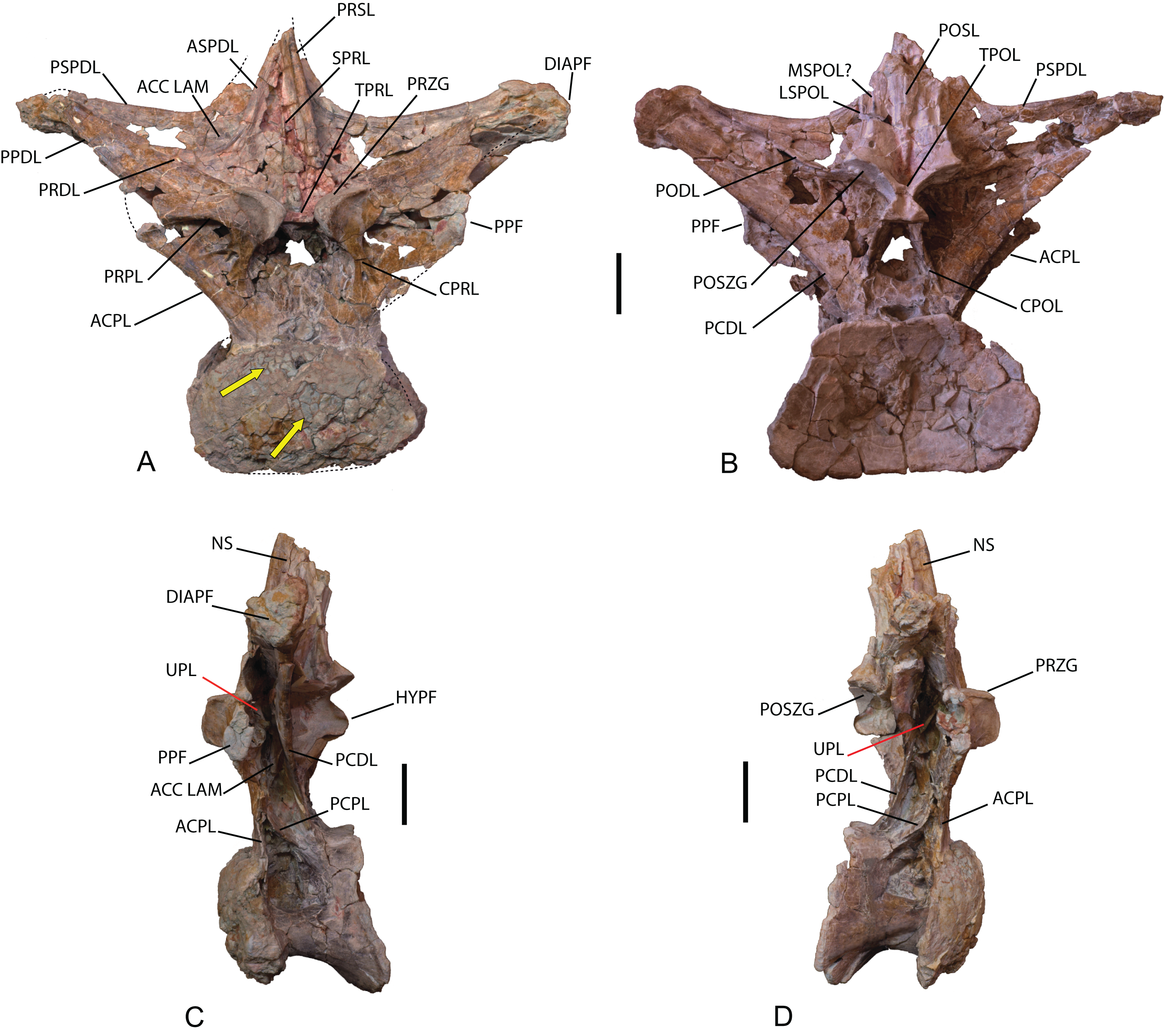 Dorsal vertebra (MDS-OTII,1) from Europatitan eastwoodi n. gen. n. sp. (A) Anterior view. (B) Posterior view. (C) Left lateral view. (D) Right lateral view. The arrows in (A) show the pneumatized camellate structure. ACC LAM, accesory lamina; ACPL, anterior centroparapophyseal lamina; ASPDL, anterior spinodiapophyseal lamina; CPOL, centropostzygapophyseal lamina; CPRL, centroprezygapophyseal lamina; DIAPF, diapophysis; HYPF, hyposphenum; LSPOL, lateral spinopostzygapophyseal lamina; MSPOL?, medial spinopostzygapophyseal lamina?; NS, neural spine; PCDL, posterior centrodiapophyseal lamina; PCPL, posterior centroparapophyseal lamina; POSL, postespinal lamina; PODL, postzygodiapophyseal lamina; POSZG, postzygapophyses; PPDL, prezygaparadiapophyseal lamina; PPF, parapophyses; PRDL, prezygodiapophyseal lamina; PRPL, prezygaparapophyseal lamina; PRSL, prespinal lamina; PRZG, prezygapophyses; PSPDL, posterior spinodiapophyseal lamina; SPRL, spinoprezygapophyseal lamina; TPOL, intrapostzigapophyseal lamina; TPRL, intraprezygapophyseal lamina; UPL, unnamed parapophyseal lamina. Scale: 10 cm.